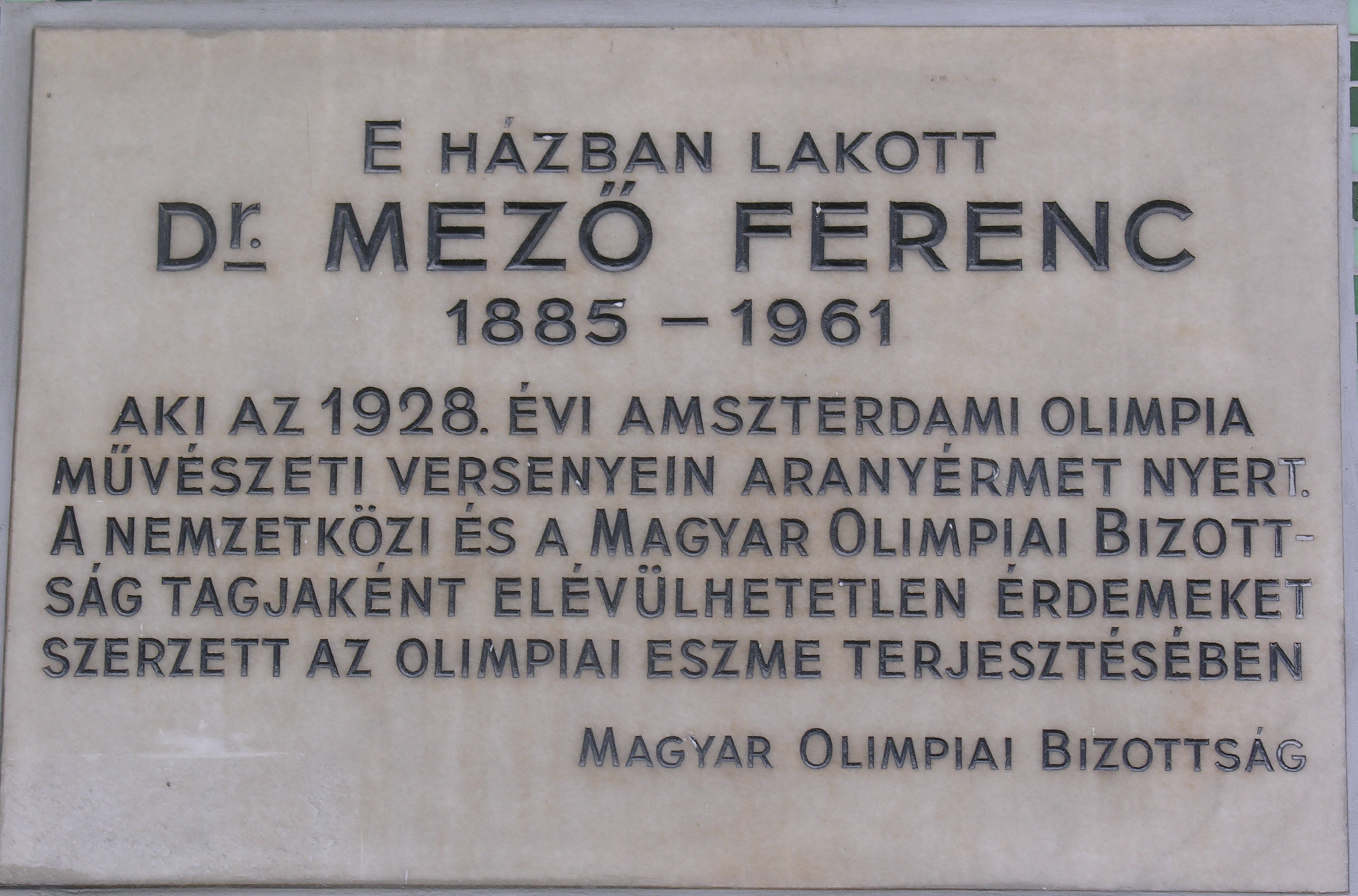 Commemorative plaque of Ferenc Mező in Budapest District II, Margit Boulevard No 50-52